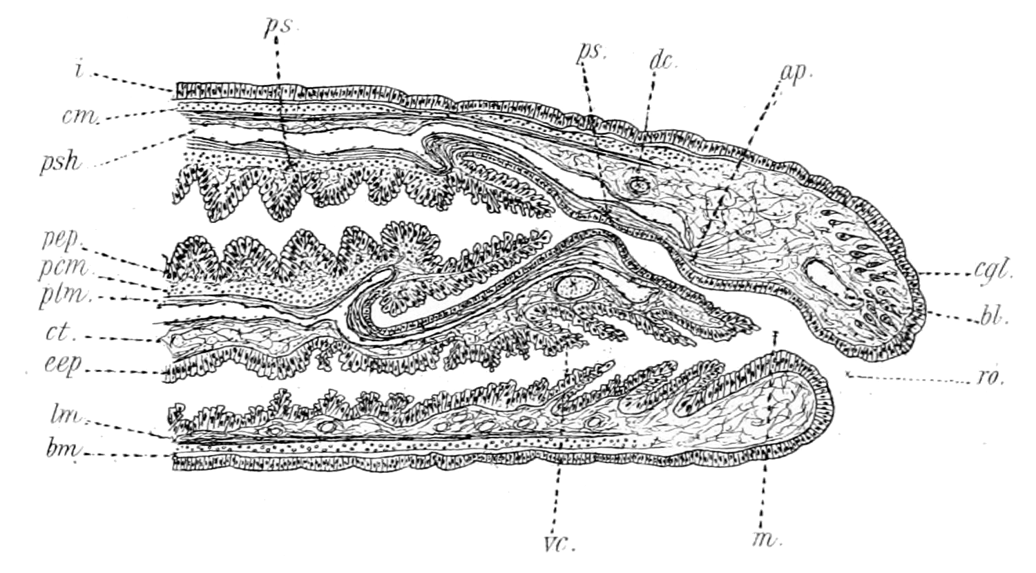 Amphiporus tigrinus (Nemertea: Hoplonemertea: Amphiporidae). Farragut Bay. Medial sagittal section through the anterior portion of the body. The cephalic glands (cgl) lie above the opening of the rhynchodaeum (ro). The mouth (m) separates from the proboscis opening a little way back. The attachment (ap) of the proboscis to the tissues of the head is seen to be well in front of the brain commissures (dc and vc). The section shows the comparative size and arrangement of the proboscis, blood vessels, esophagus, and other organs. See also standard abbreviation.